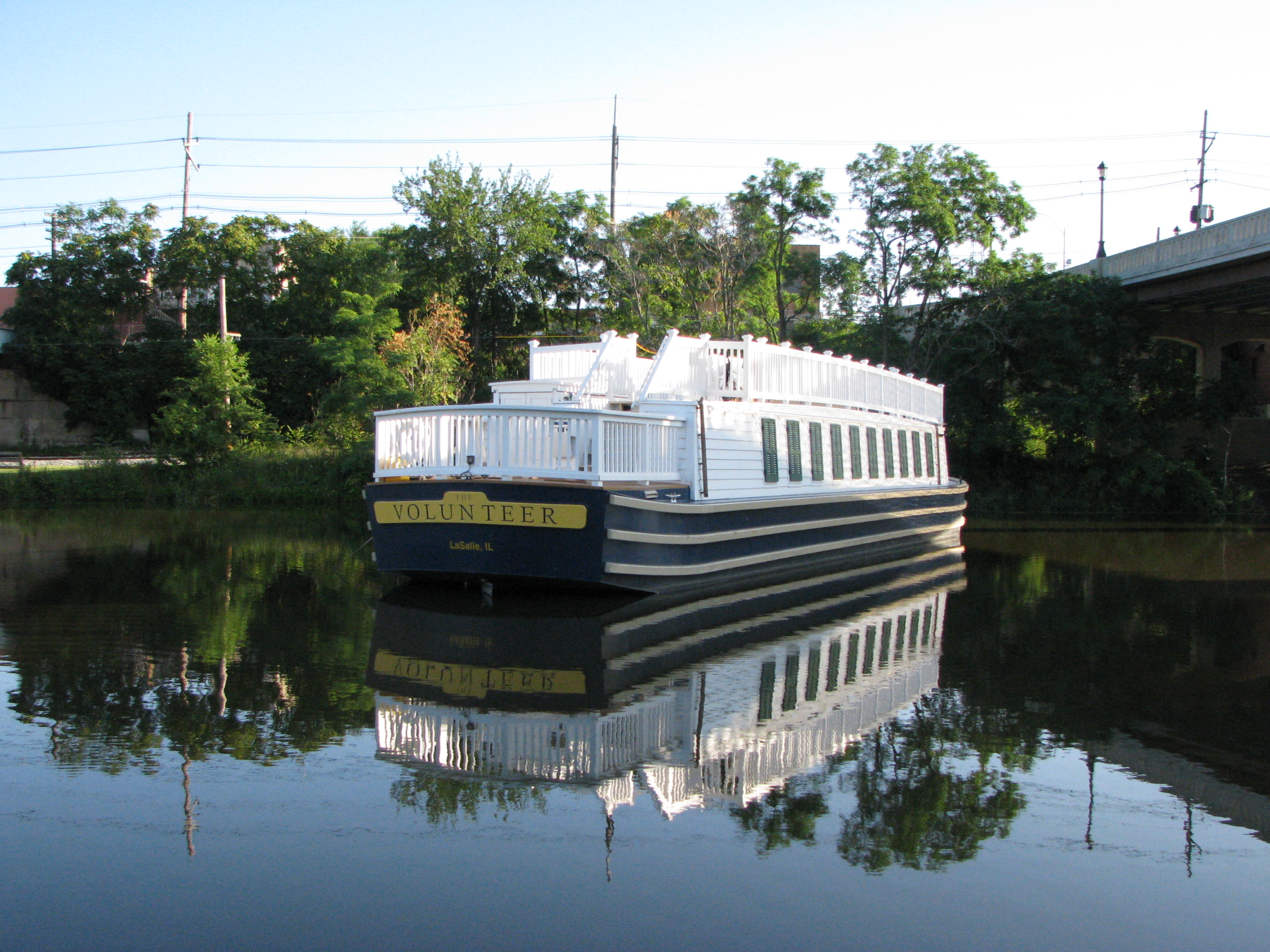 The Volunteer, a 1848 replica canal boat on the Illinois and Michigan Canal at LaSalle, Illinois.